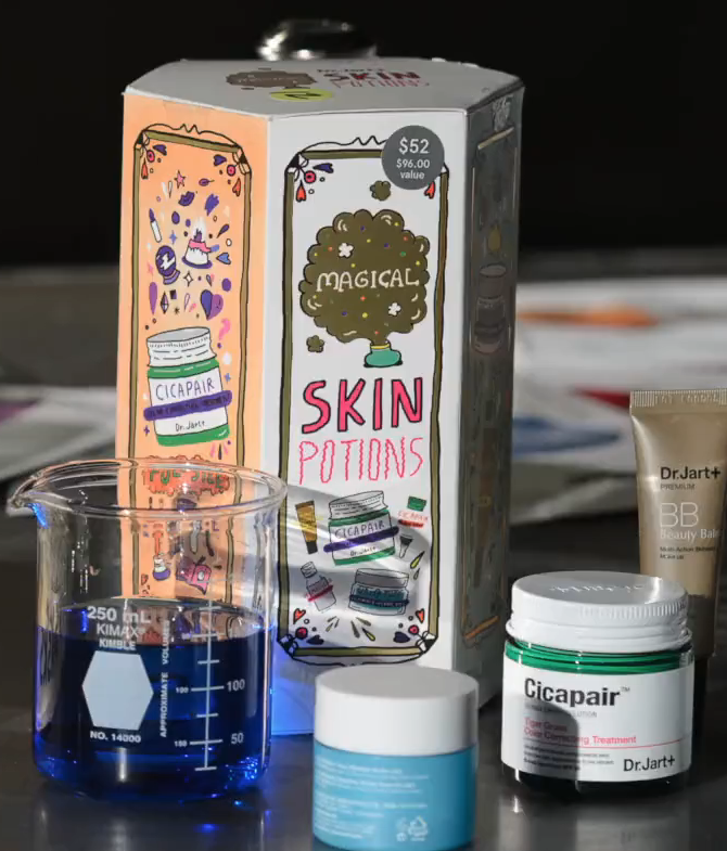 Dr. Jart+ "Magical Skin Potions" gift set sold by Sephora. Contents of the set are displayed, with Cicapair Tiger Grass Color Correcting Treatment and Premium Beauty Balm samples in the foreground. Products are styled with a laboratory beaker.